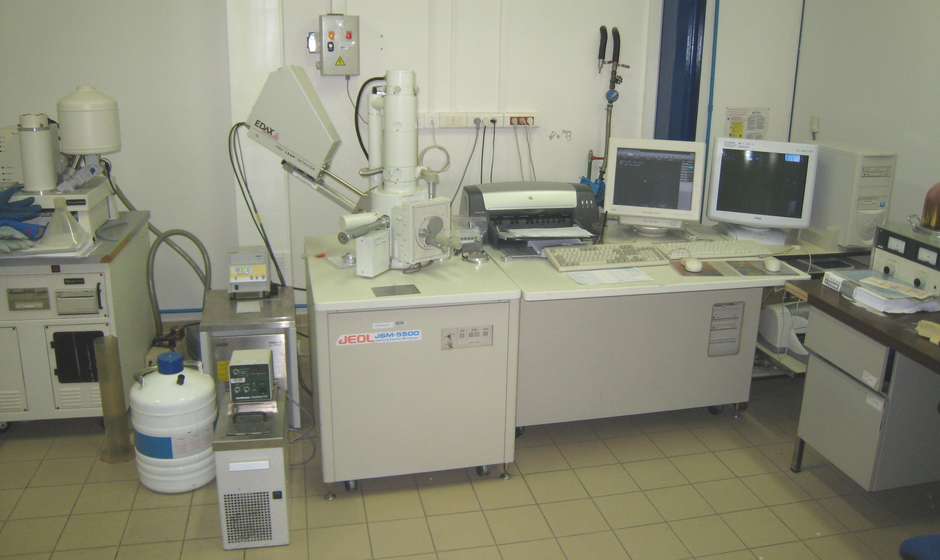 Scanning electron microscope JEOL JSM-5500 and its accessories.